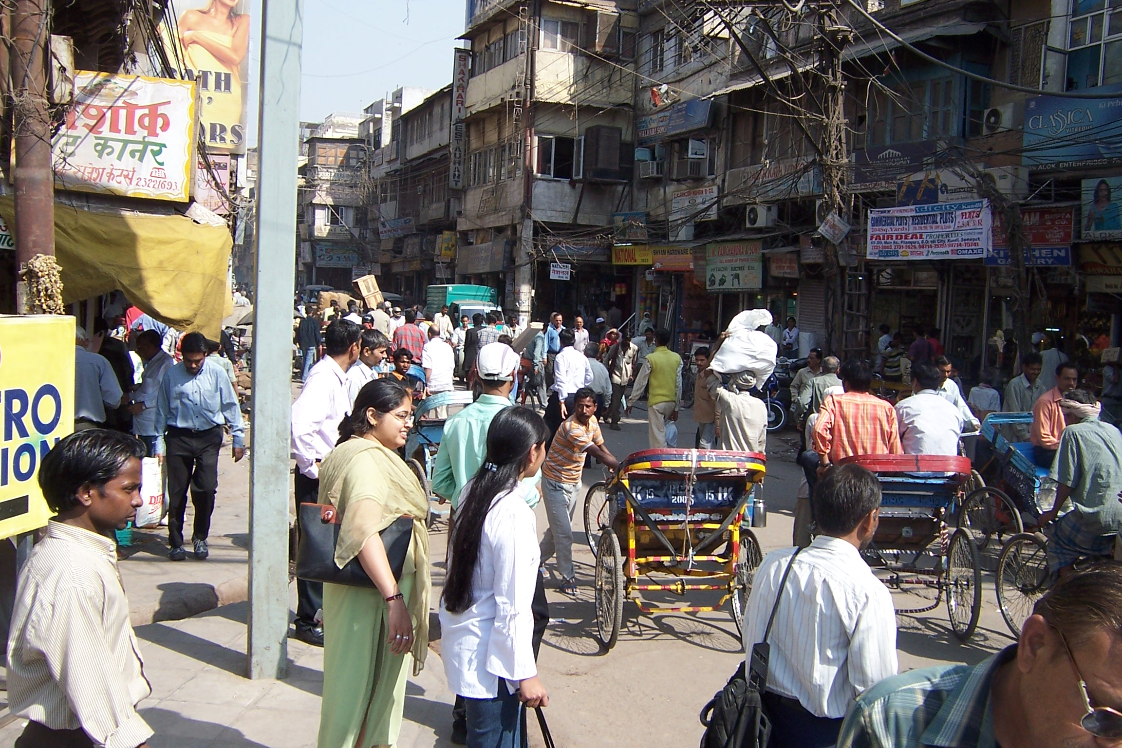 Along Chawri Bazar in Old Delhi. Taken on 4 March 2006.